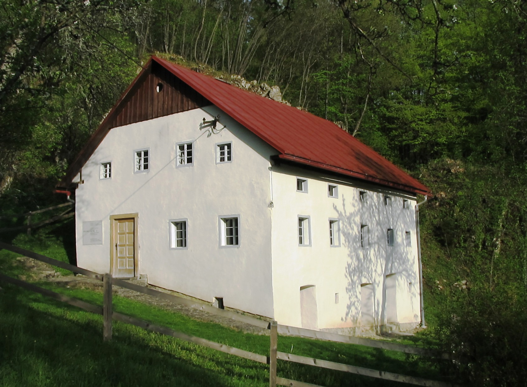 House where the Slovene writer, poet, and translator France Bevk (1890–1970) spent his childhood in Zakojca, Municipality of Cerkno, Slovenia.